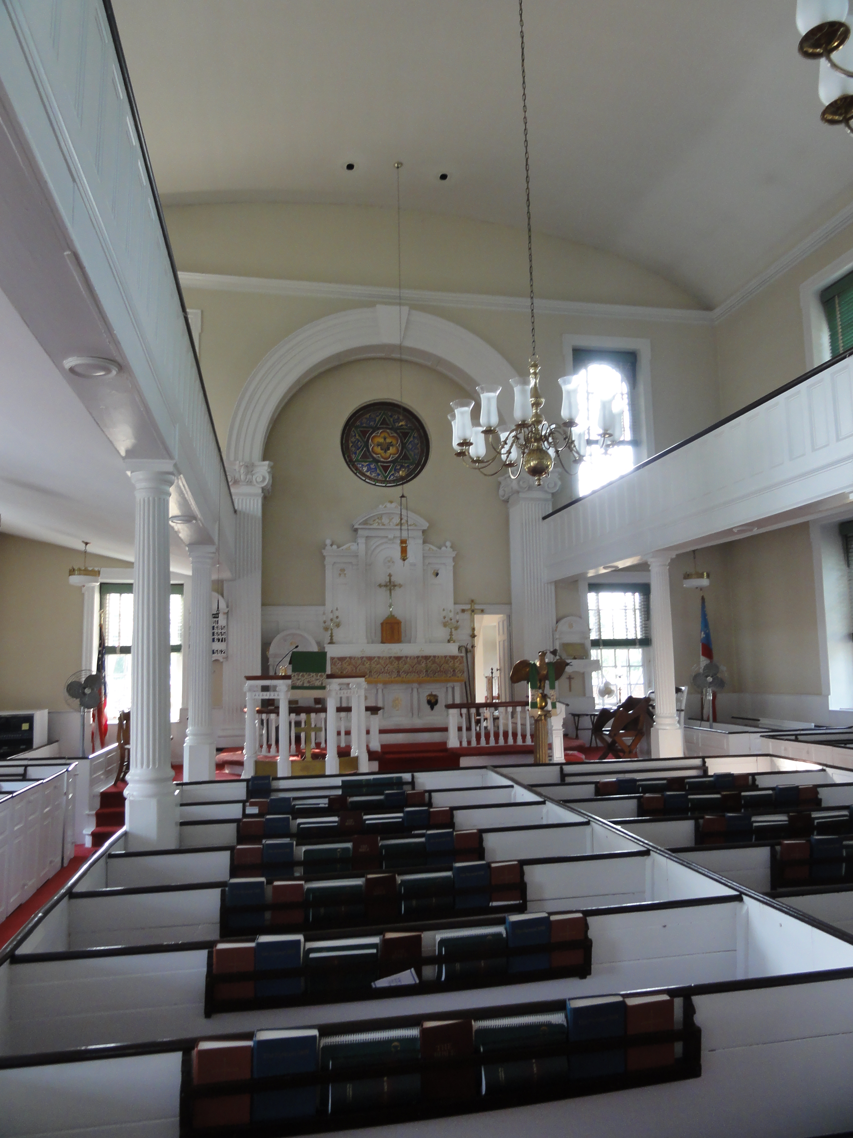 Interior of Trinity Church, Swedesboro, NJ